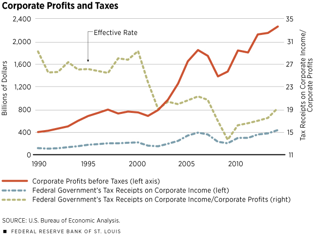 Graph from the Saint Louis Federal Reserve showing how aggregate effective US corporate tax rates have been materially below the headline 35% US corporate tax rate.